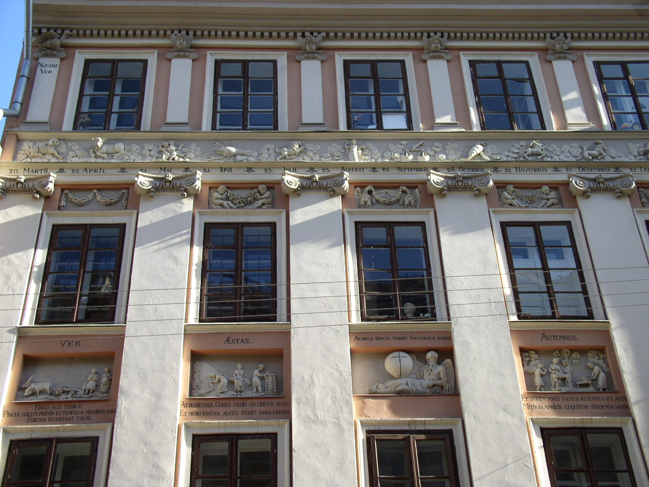 Armenian St. 23. Lviv, Ukraine.